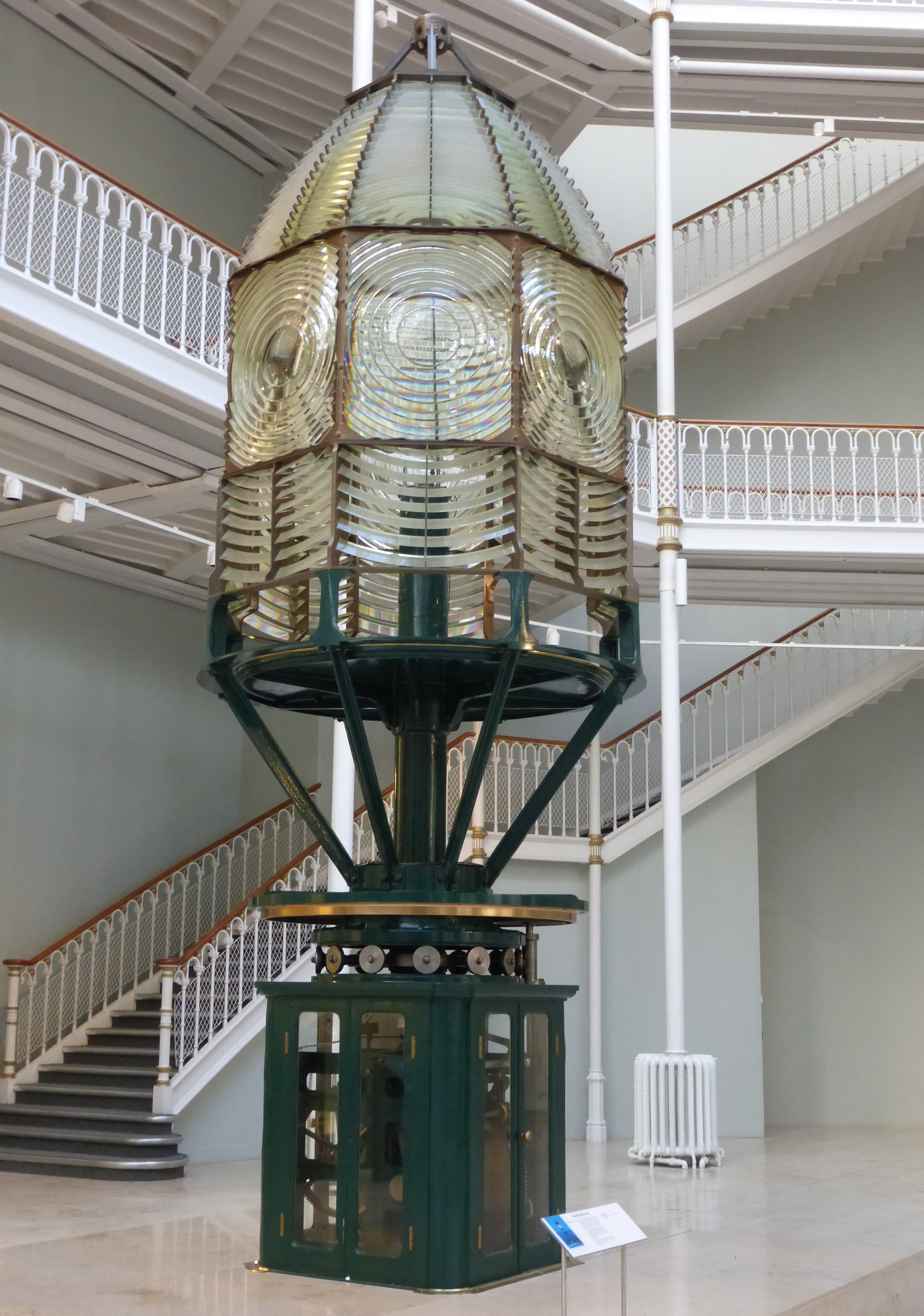 Dioptic lens designed by David A Stevenson in 1899 for the Inchkeith Lighthouse. It remained in use until 1985 when the last lighthouse keeper was withdrawn and the light was automated.